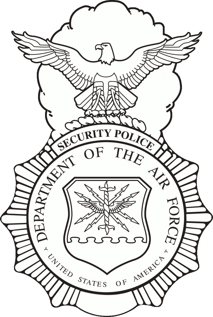 United States Air Force Security Forces badge United States Air Force TRF badge United States Air Force PR badge